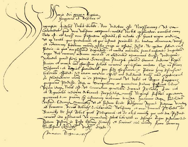 Clause of parliamentary invitation card in Hungary